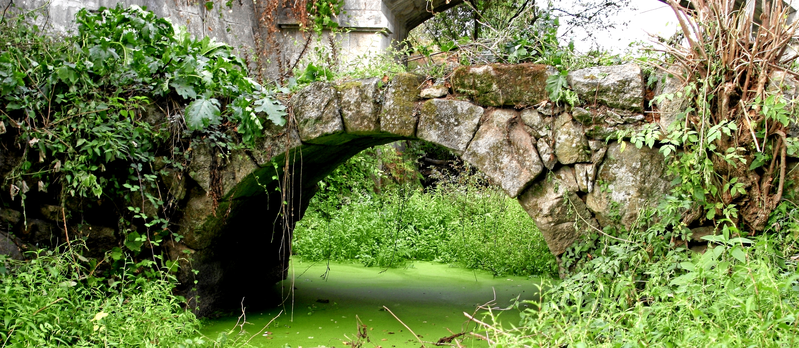 This file was uploaded for Wiki Loves Monuments in Portugal with the unique identifier 71479.